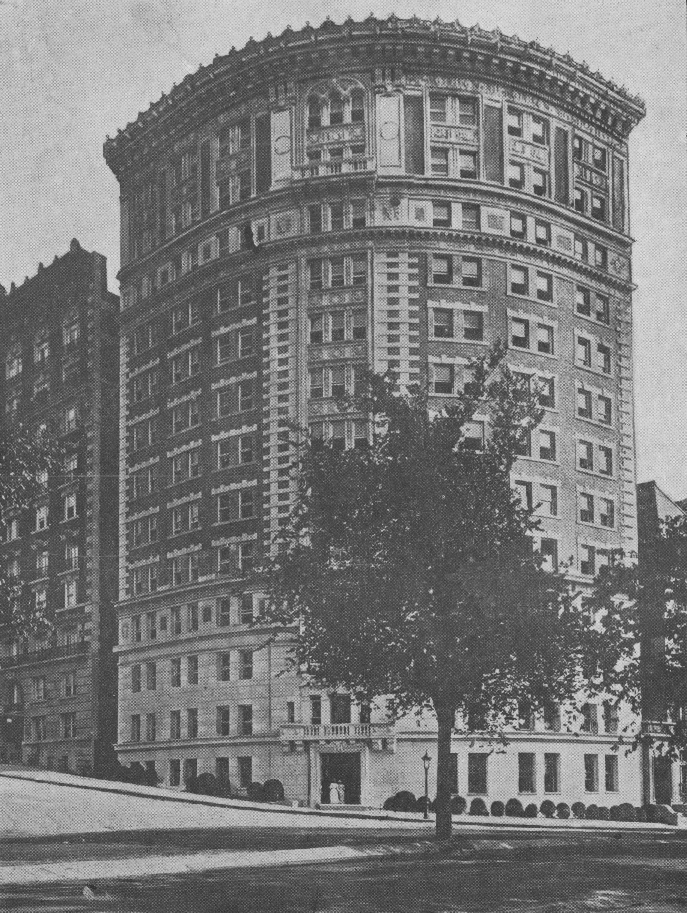 The Colosseum at 435 Riverside Drive, 1910.